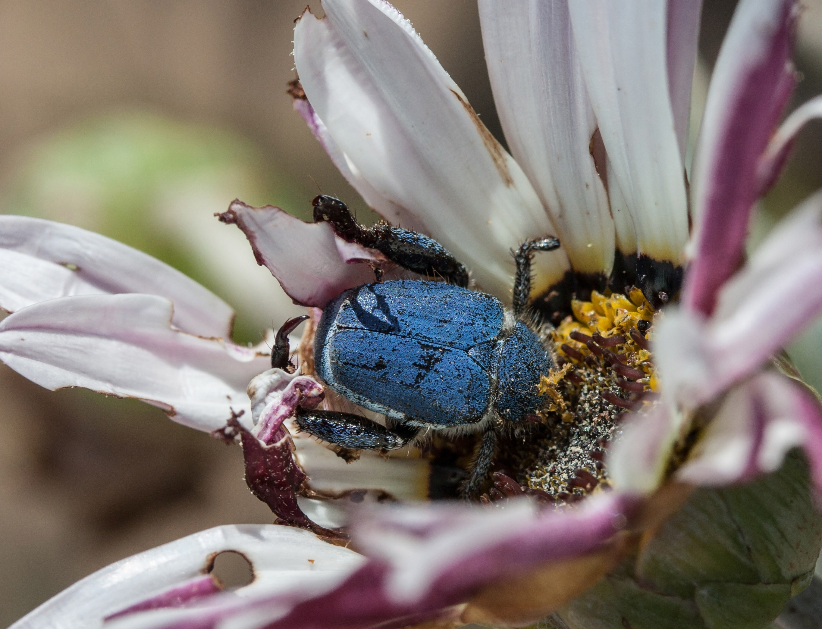 Scelophysa trimeni burrowing in the disc of a flower (Arctotis decurrens) while feeding. Photographed near Port Nolloth, Northern Cape, South Africa.